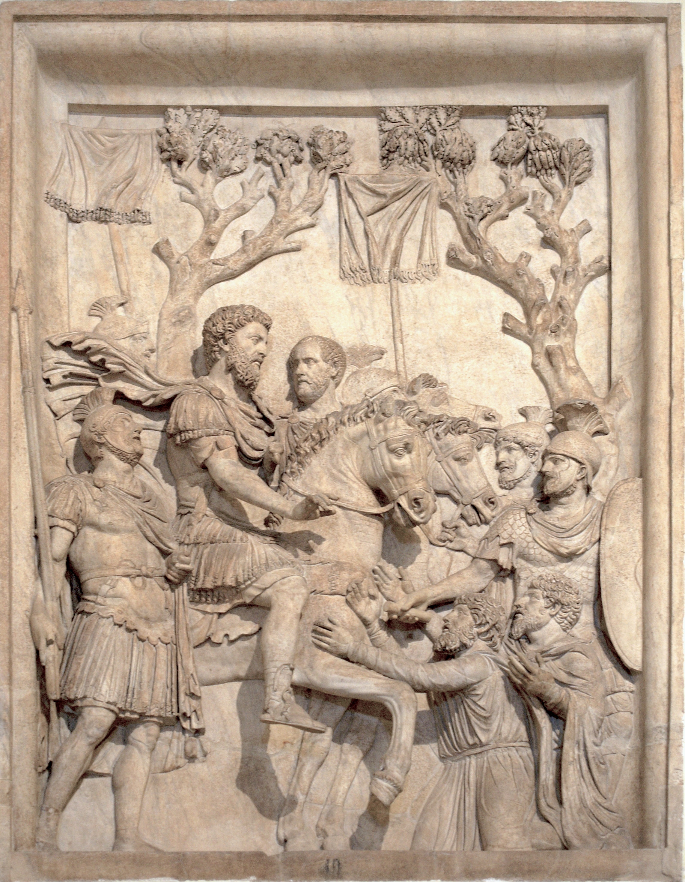 Emperor Marcus Aurelius (161-180 AD) shows his clemence towards the vanquished after his success against Germanic tribes. Bas-relief from the Arch of Marcus Aurelius, Rome, now in the Capitoline Museum in Rome.